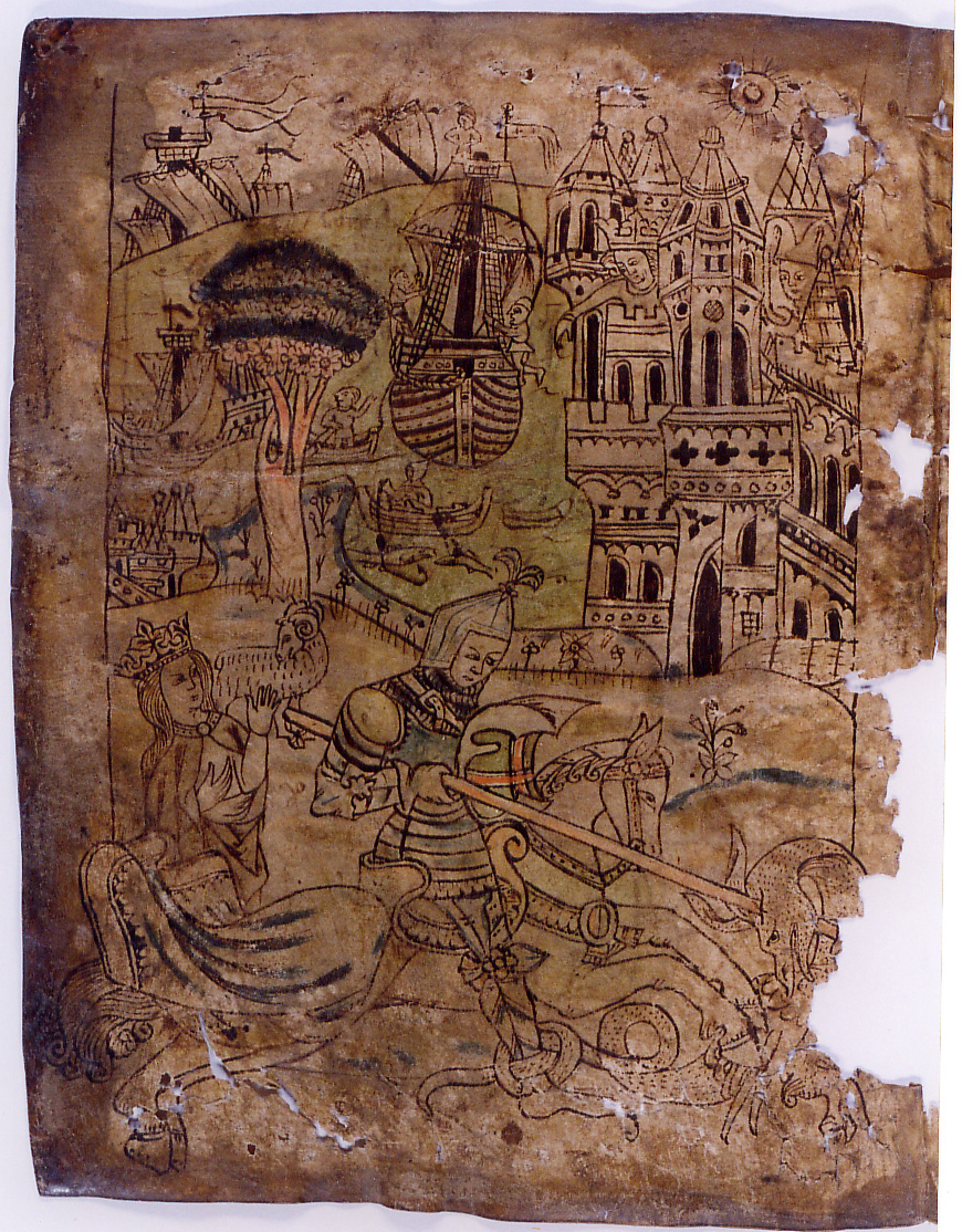 Saint George and the dragon. From the 15th century Icelandic manuscript AM 673a III 4to in the care of the Árni Magnússon Institute in Iceland.